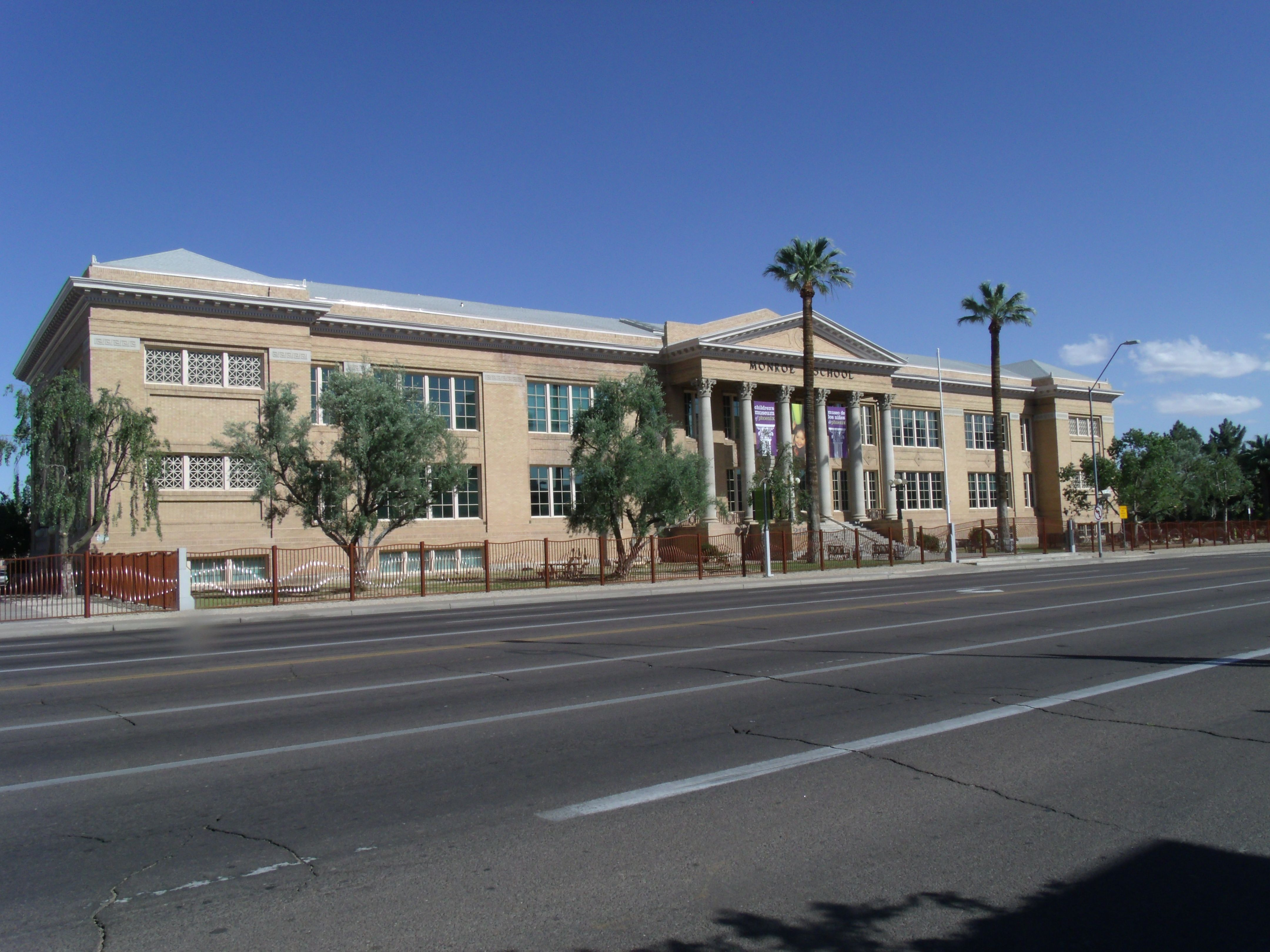 Historic (NRHP) Monroe High School, built in 1914, in Phoenix, Arizona